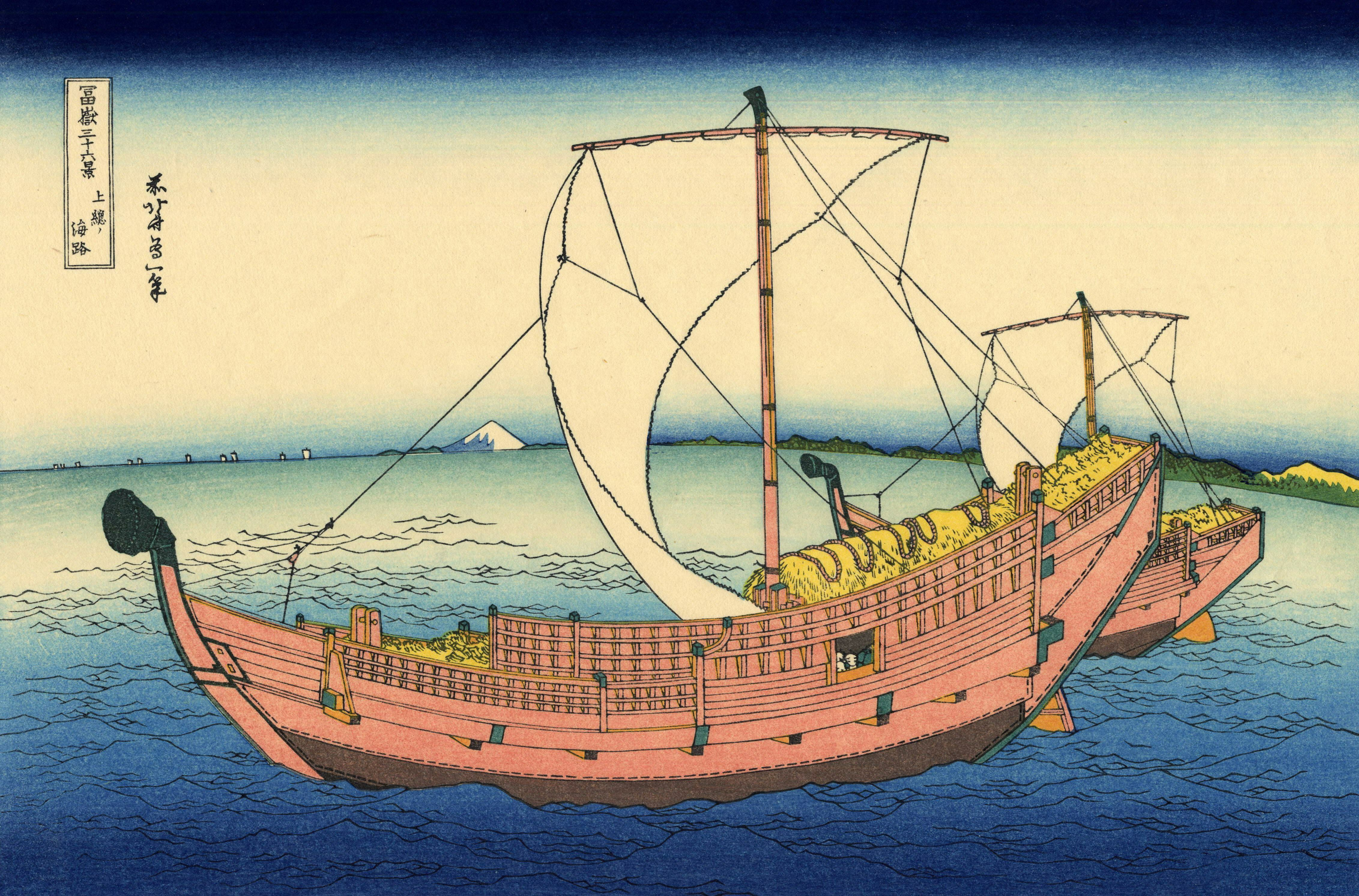 Part of the series Thirty-six Views of Mount Fuji, no. 17.